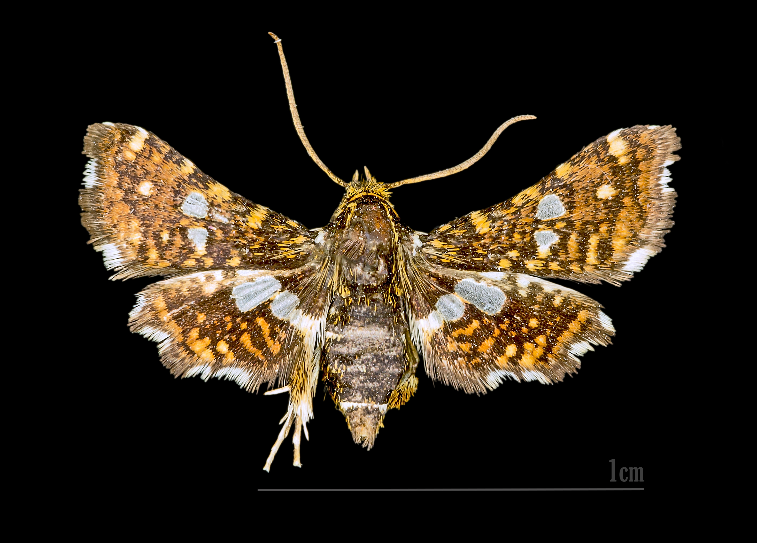 Pygmy (Moth). Dorsal side